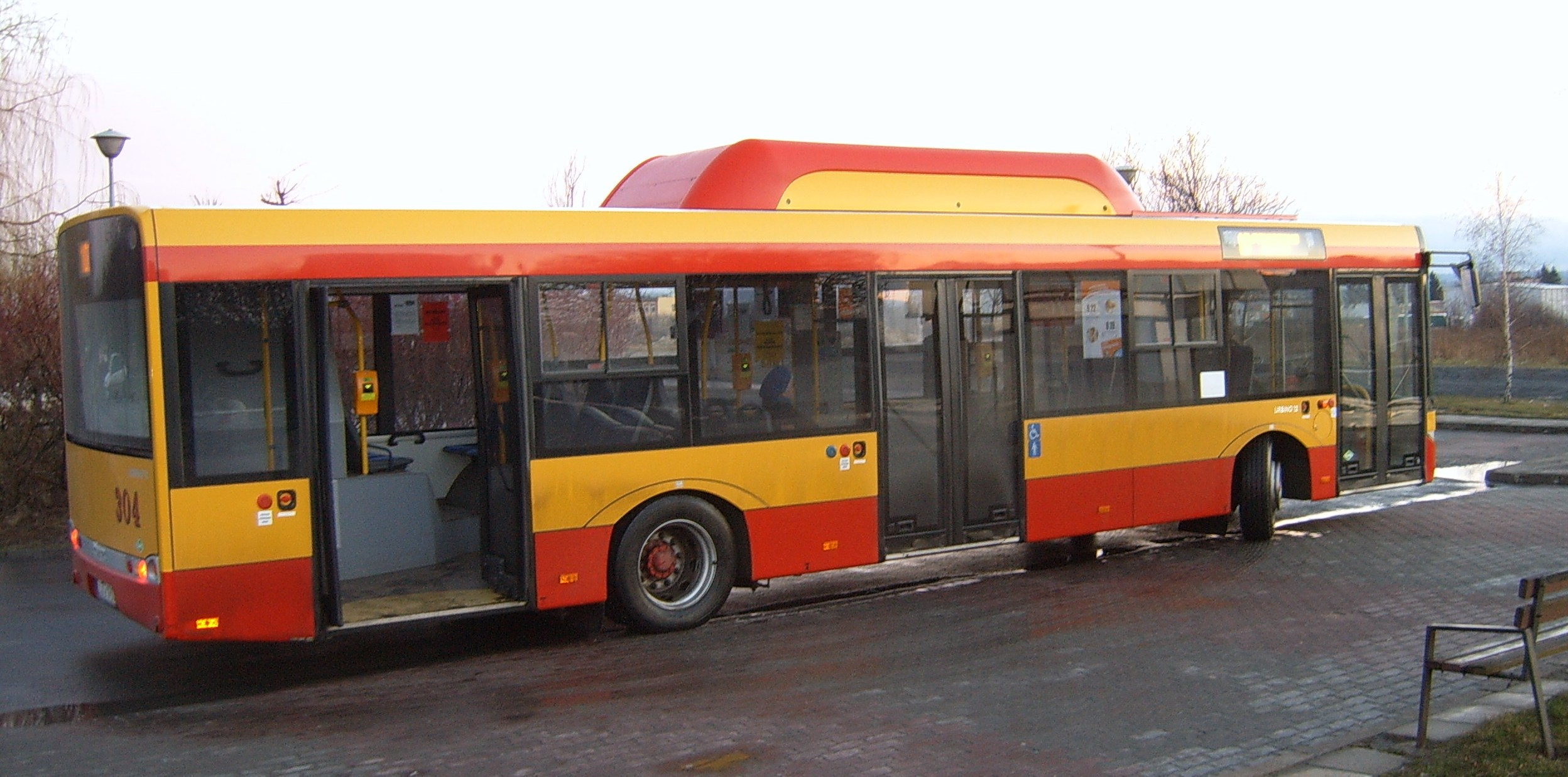 Solaris Urbino 12 CNG bus (#304) in Zamość, Poland. Built 2006, MZK Zamość operator.